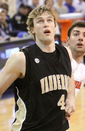 A.J Ogilvy scores 16 points